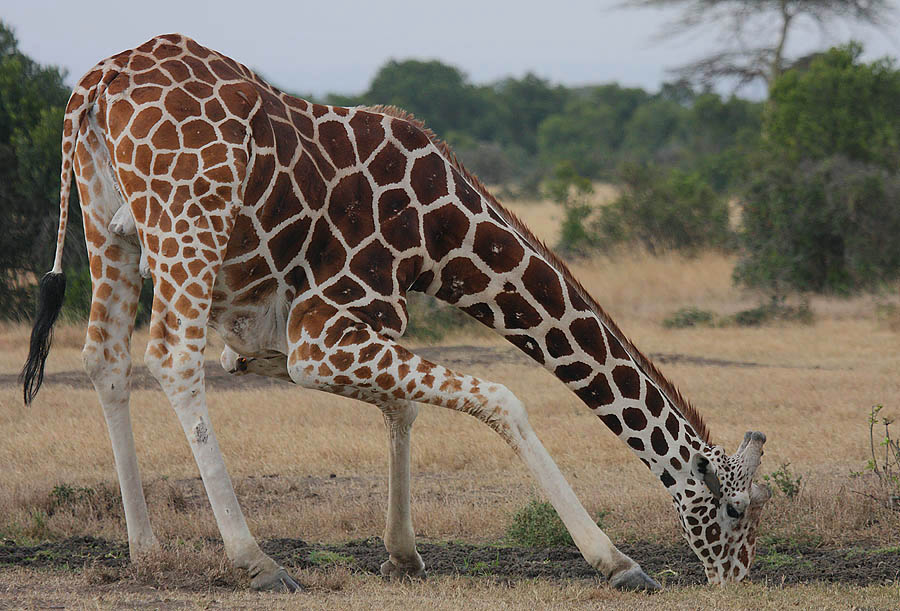 A male Reticulated Giraffe drinking at dusk -image taken at Ol Pejeta Ranch, Kenya